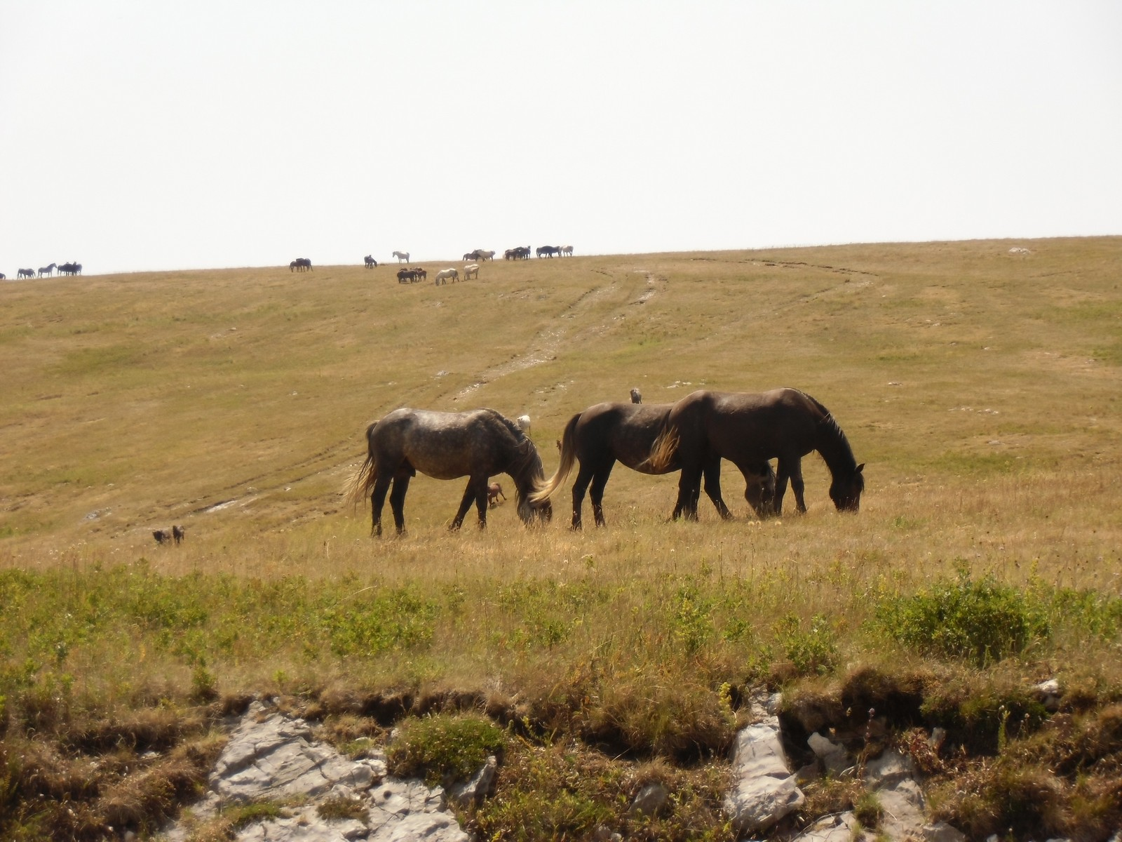 Livno Wild horses (10)